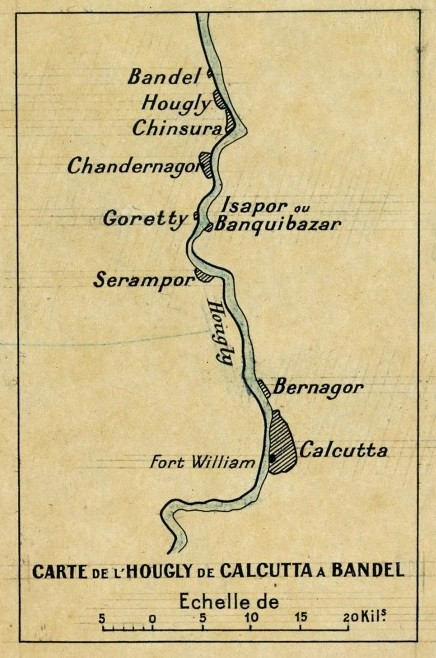 1911 annotated copy of a 1749 French manuscript map of the Hooghly River with the European settlements and factories along its banks: Bandel (Portuguese), Hooghly (Dutch, previously British), Chinsurah (Dutch), Chandernagore (French), Goretty (French), Banquibazar (Imperial/Austrian), Serampore (Danish), Bernagore (Dutch), Fort William/Calcutta (British).